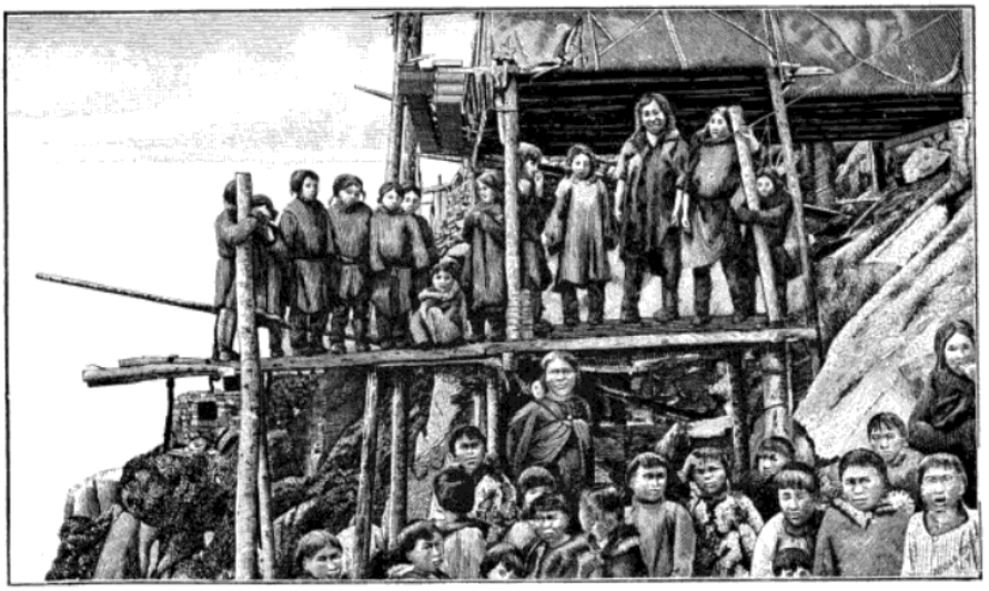 Residents of King Island, Alaska pose on the walkways of their stilt village. Engraving, probably after a photograph.